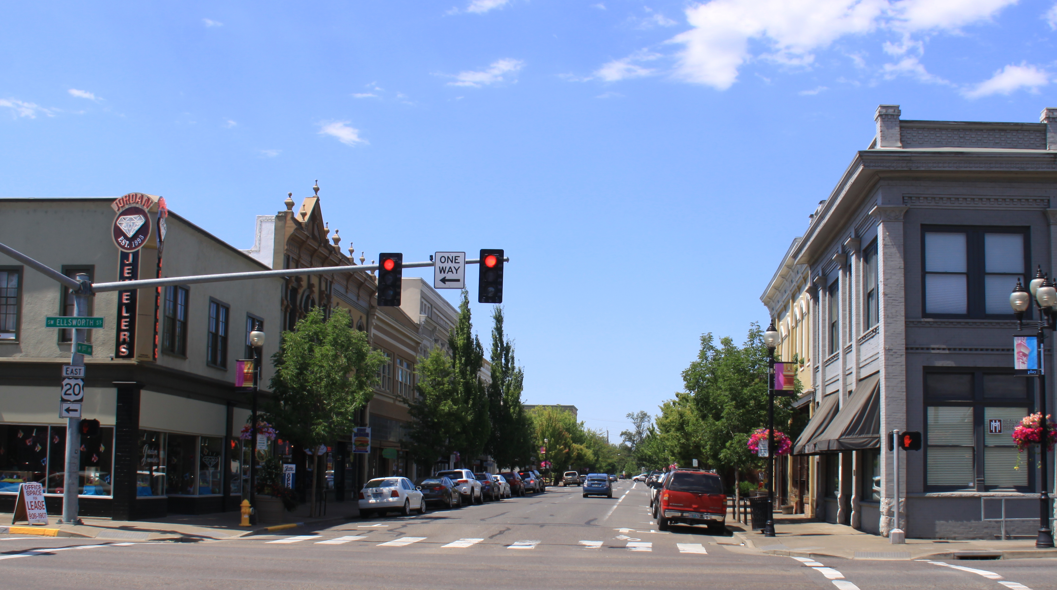 Albany, Oregon looking west down 1st Ave SW in the summer of 2014